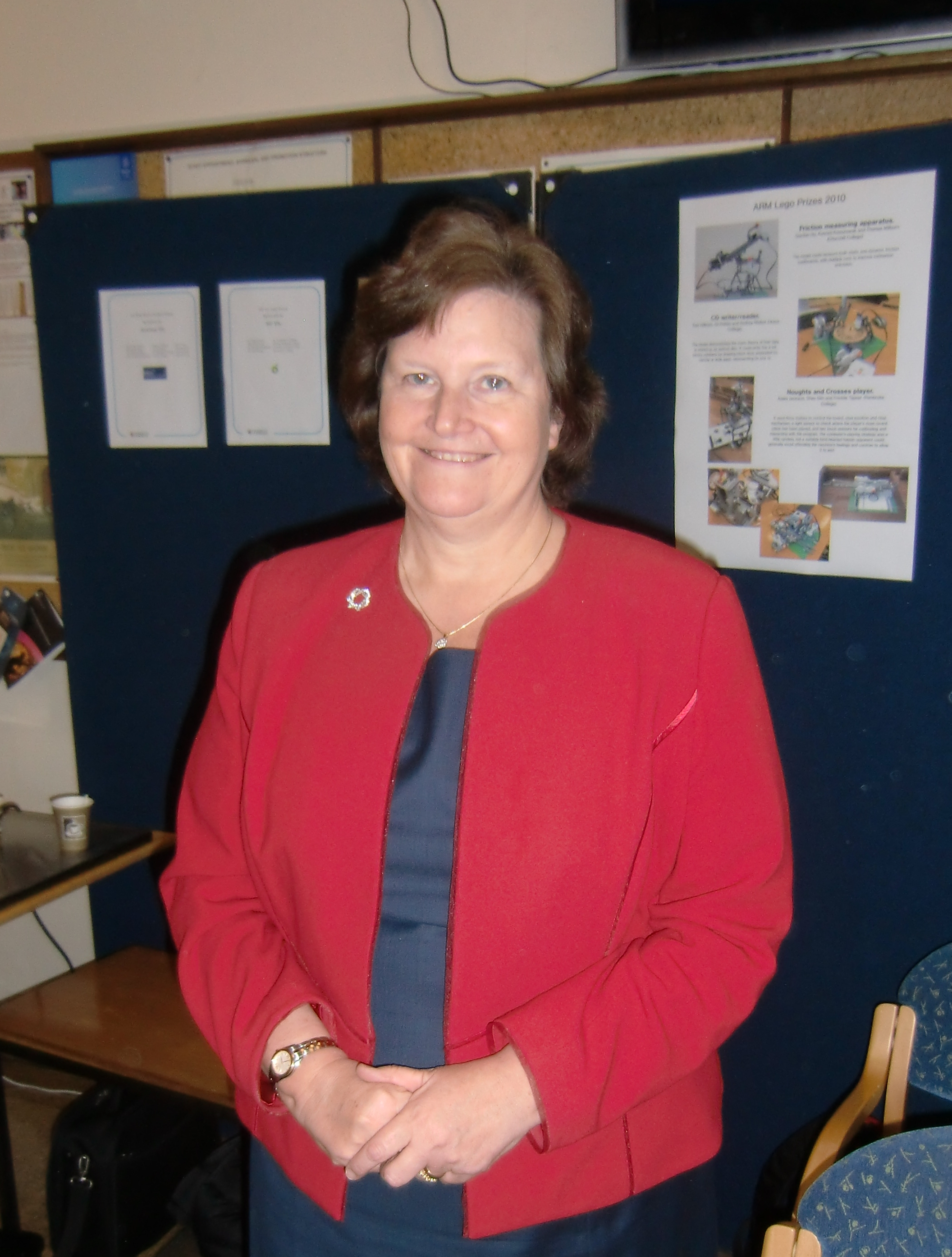 Professor Dame Ann Dowling at the undergraduate prize-giving ceremony of Cambridge University Engineering Department 2011.